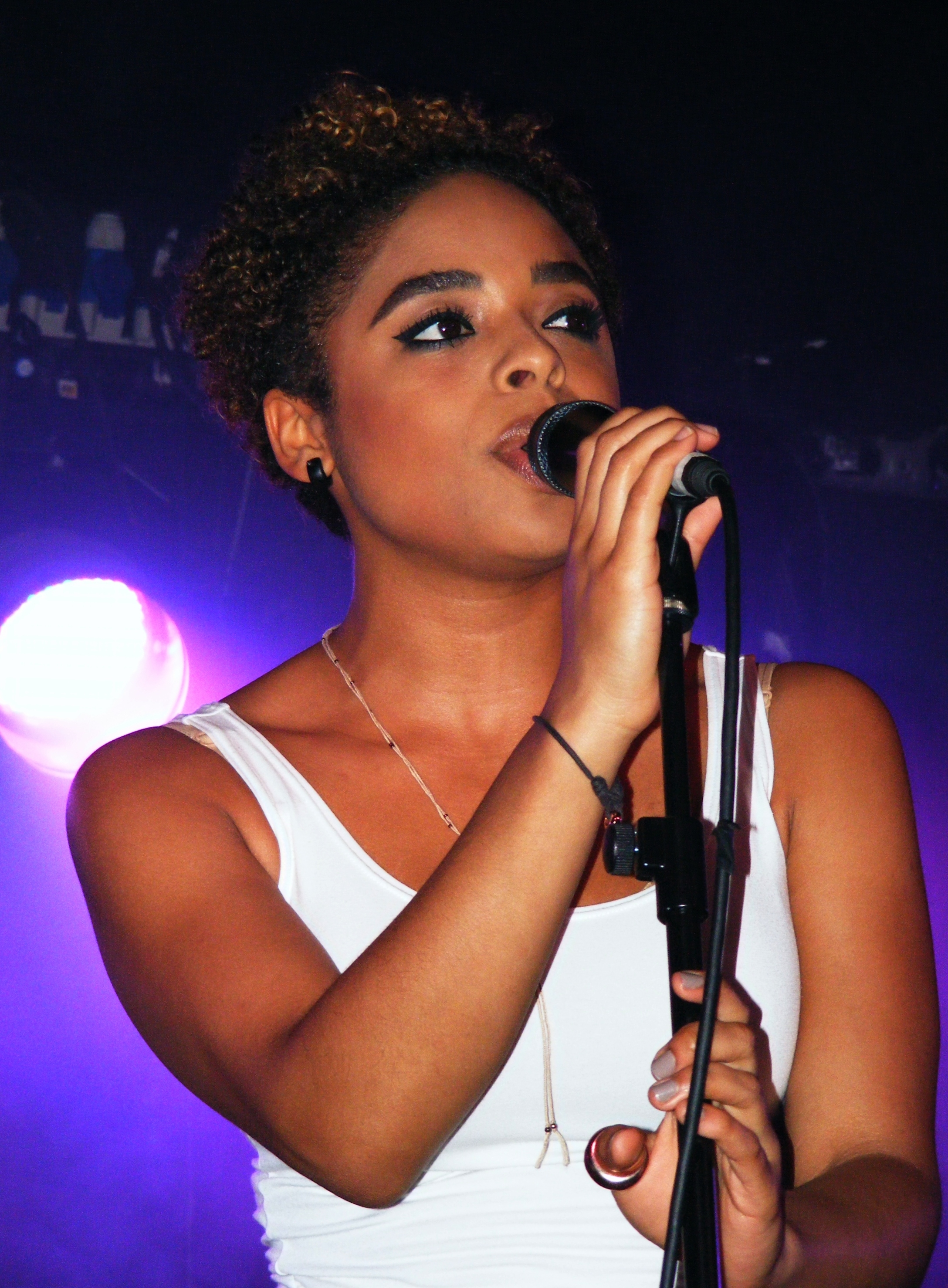 Rox at the Dot to Dot Festival, Manchester, on Monday the 31st of May 2010.